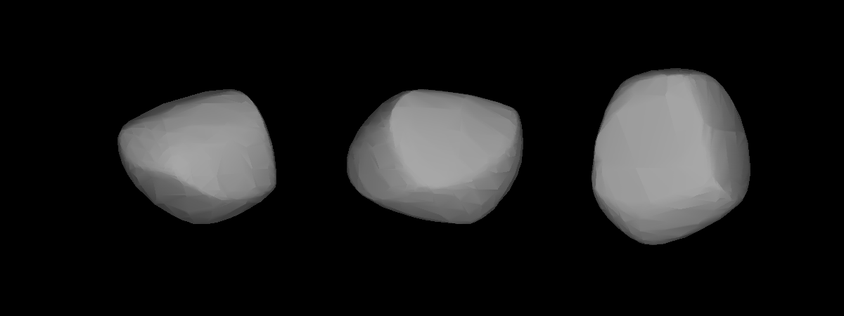 A three-dimensional model of 350 Ornamenta that was computed using light curve inversion techniques.